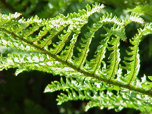 Species: Dryopteris affinis f. crispa Family: Aspidiaceae Image No. 1